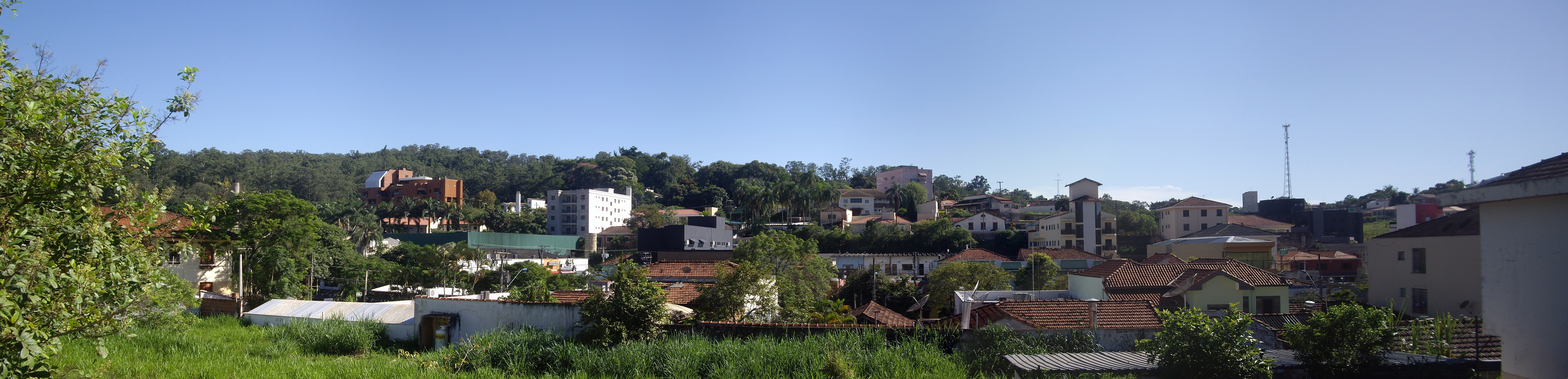 Águas de São Pedro landscape, Brazil.